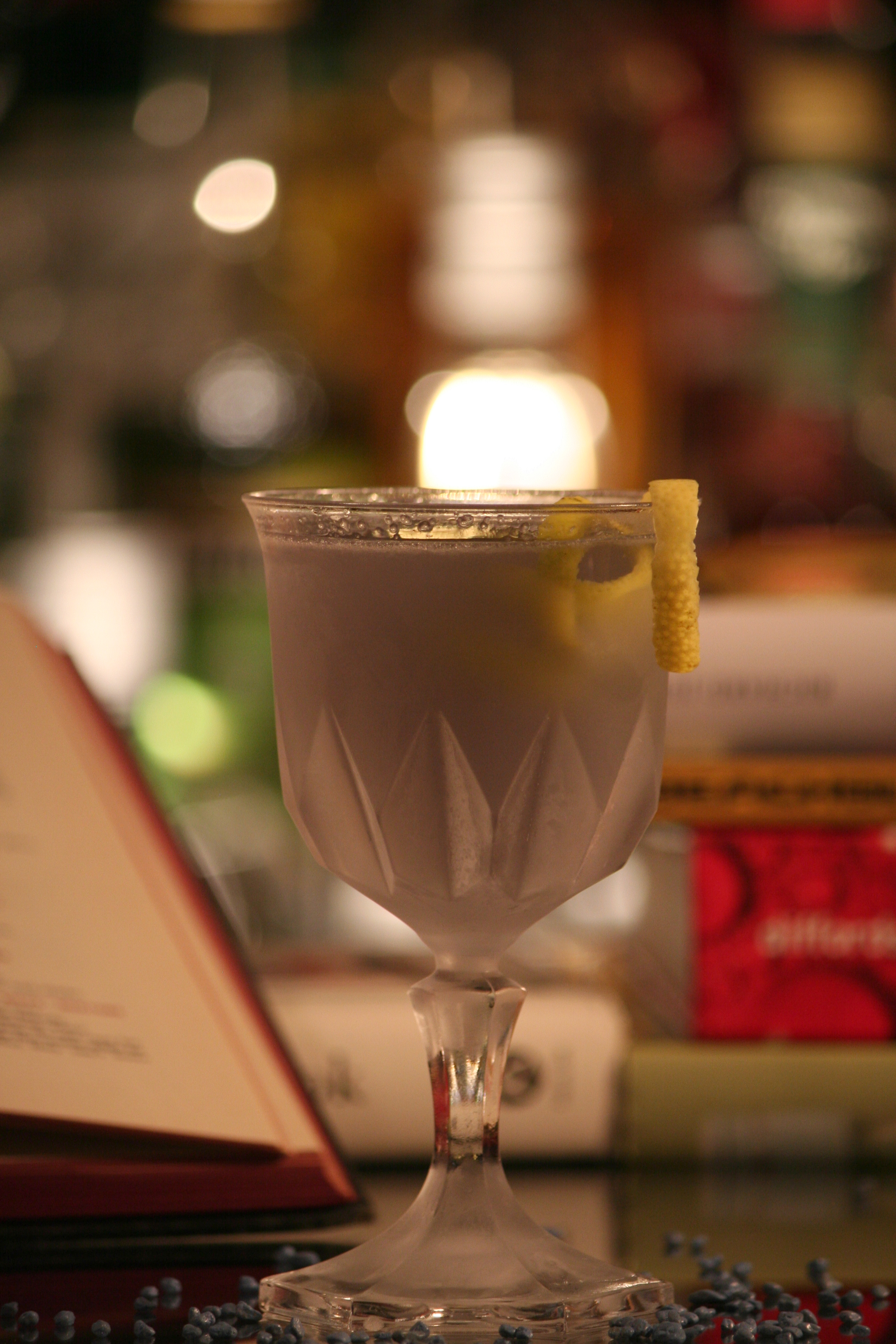 The classic Cocktail "Blue Moon". Creme de Violette creates a blue color.